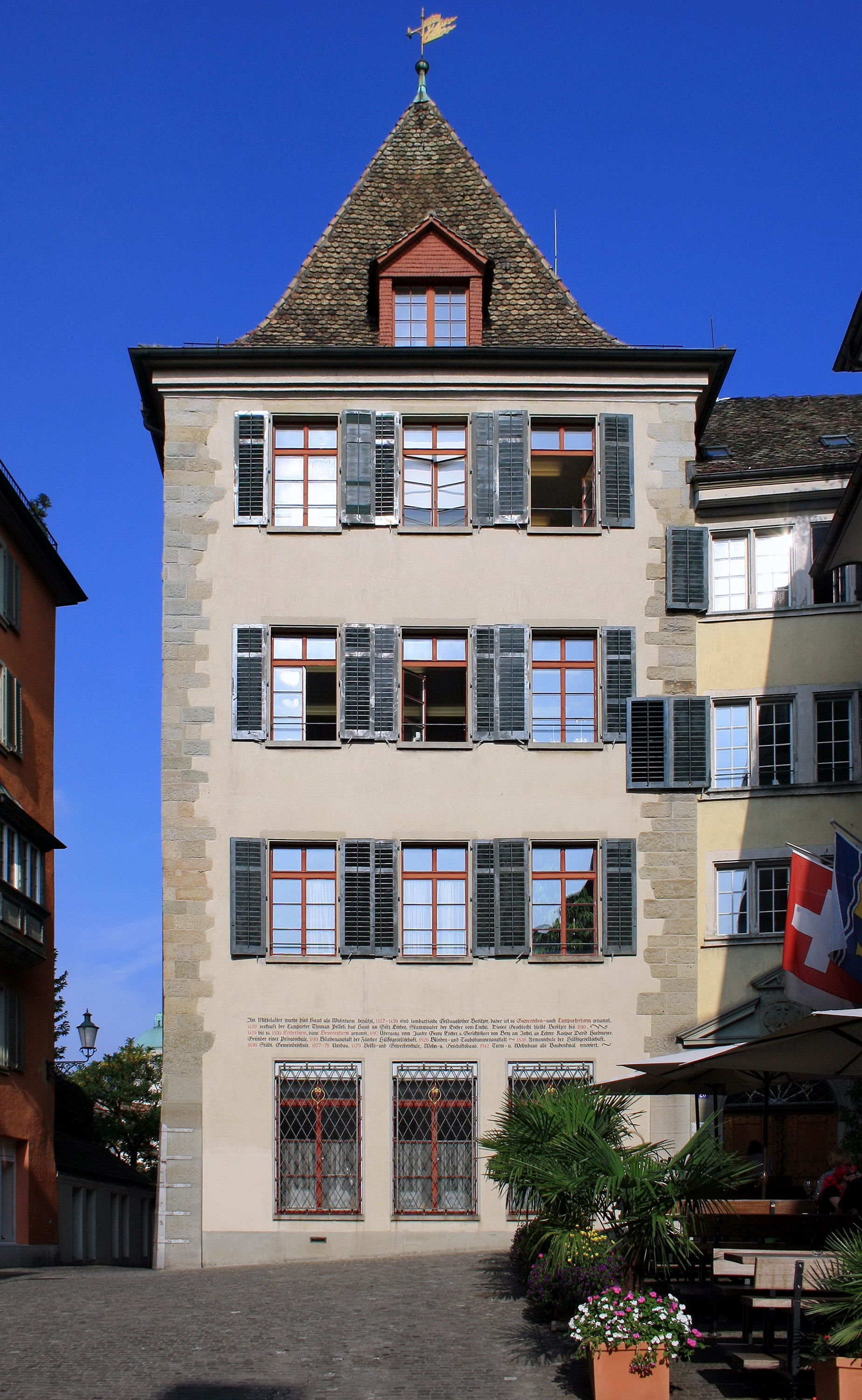 Zürich, Rathaus quarter : Brunnenturm as seen from Napfplatz.